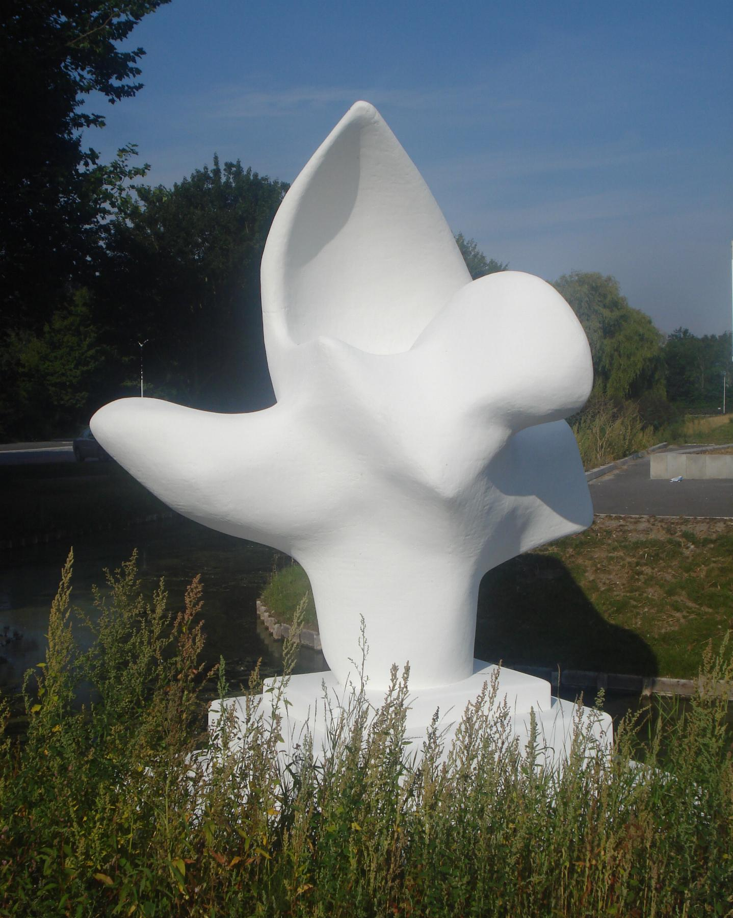 Sculpture The Flight in Hillegom. Design of the monument: Jan Roëde (1814-2007); sculptor: Will Leeuwens (1923-1986)